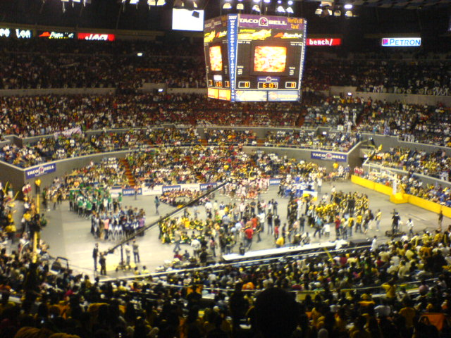 UAAP Cheer Dance Competition (2007) held at the Araneta Coliseum